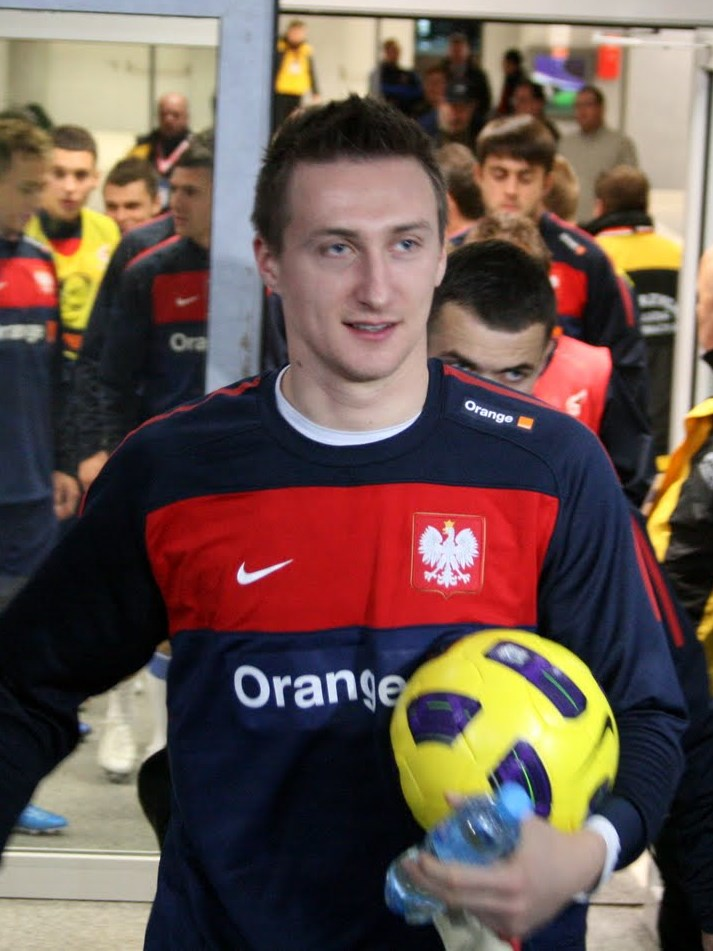 Polish football player Przemysław Tytoń